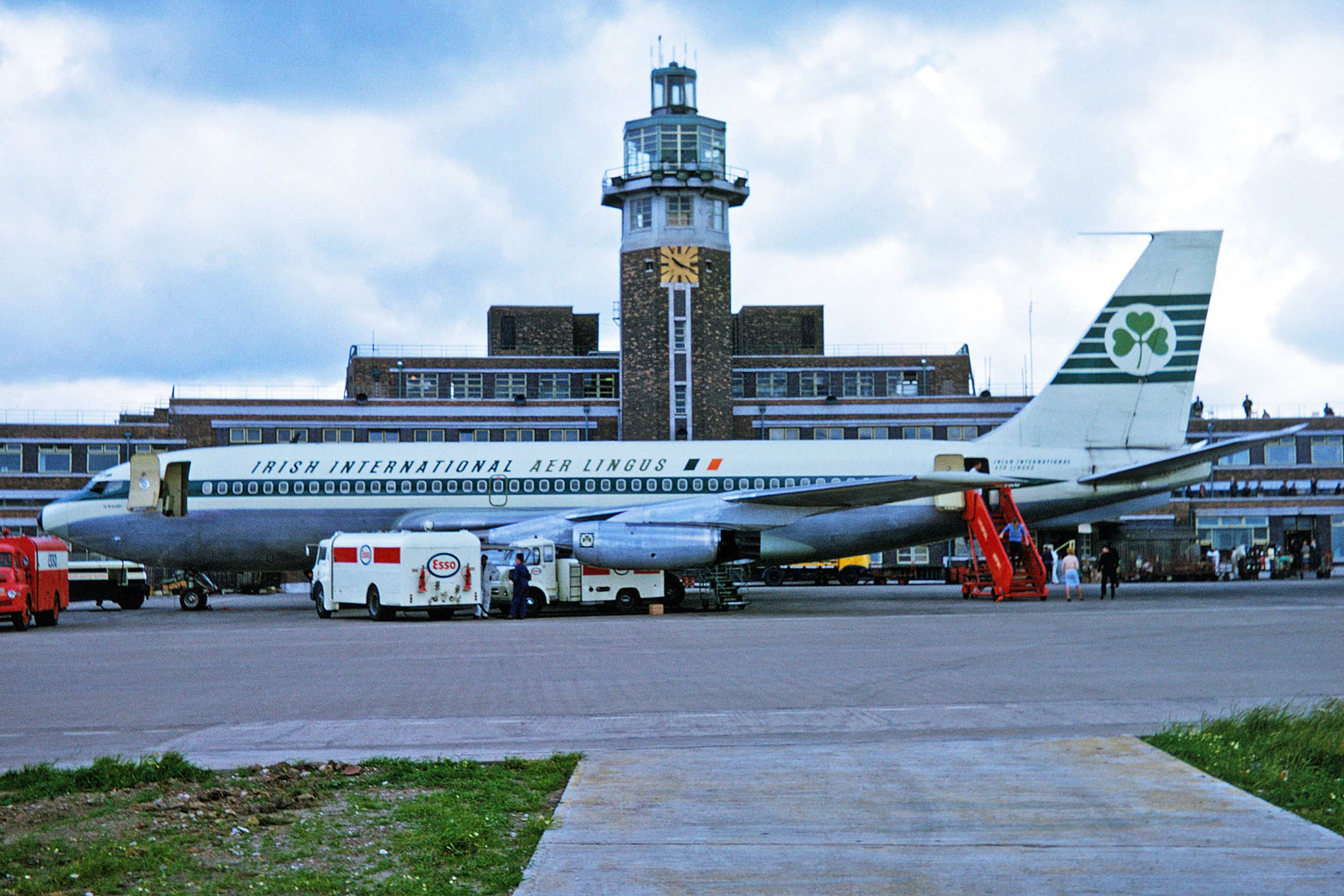 Aer Lingus Boeing 720-048 (EI-ALC) at Liverpool Airport